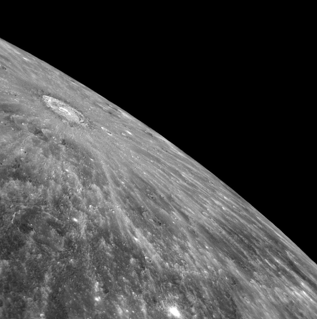 Hokusai crater on Mercury (also known as feature B) has an extensive system of rays.